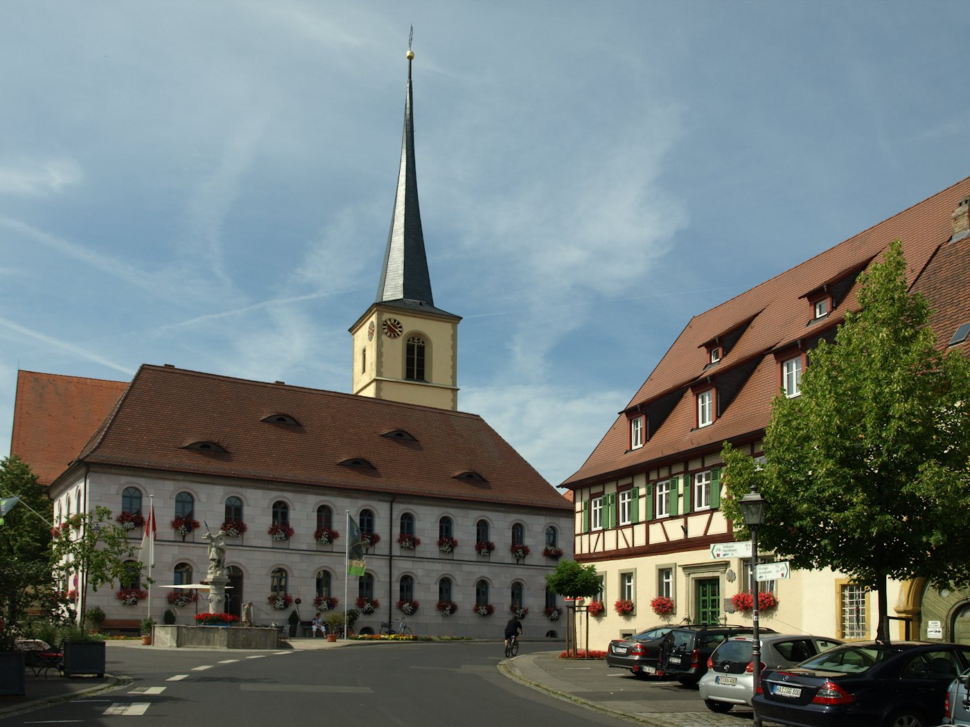 Sommerach, Landkreis Kitzingen (Bayern, Germany), Center of the village, photo 2009